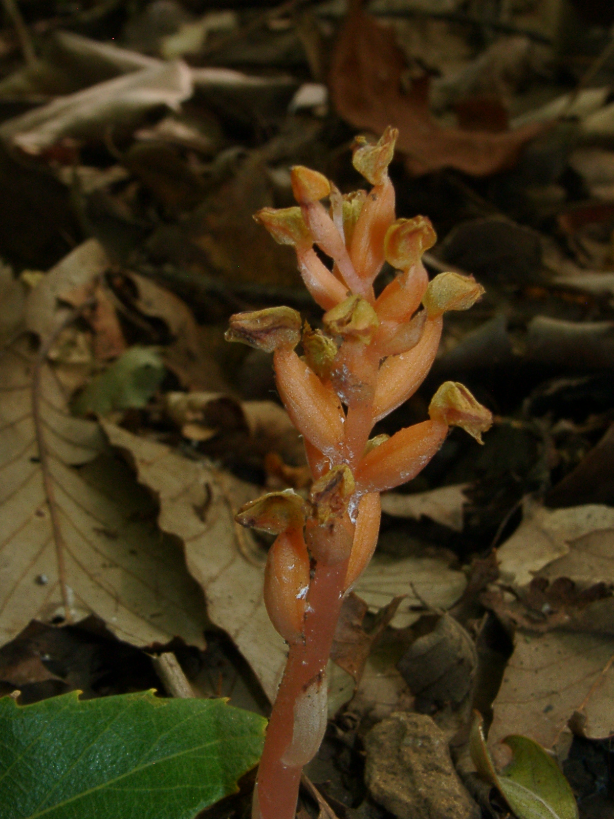 Chamaegastrodia shikokiana flower at Hiratsuka-city, Japan.